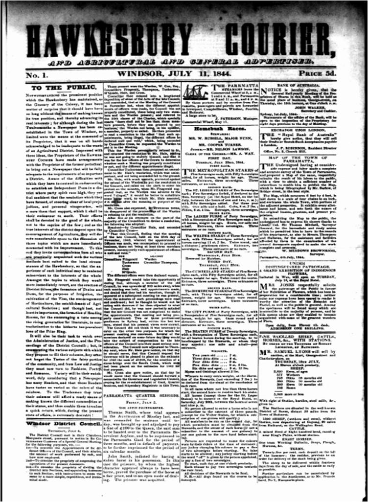 Coverpage of a historic newspaper from New South Wales, Australia.